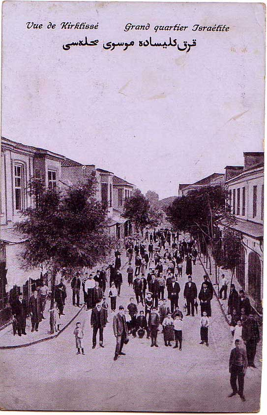 A Jewish quarter in Kirk Kilisse